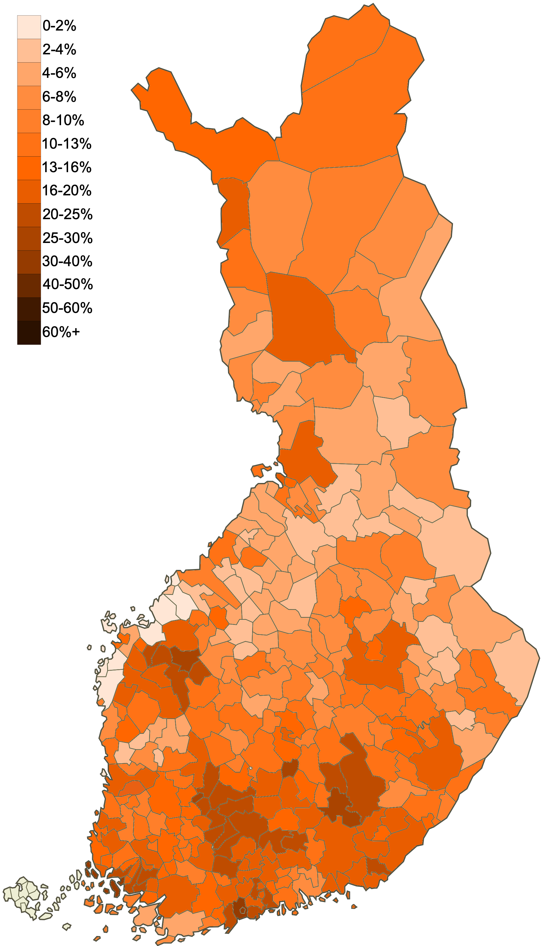 Support for the National Coalition Party by municipality in the election for the Eduskunta.